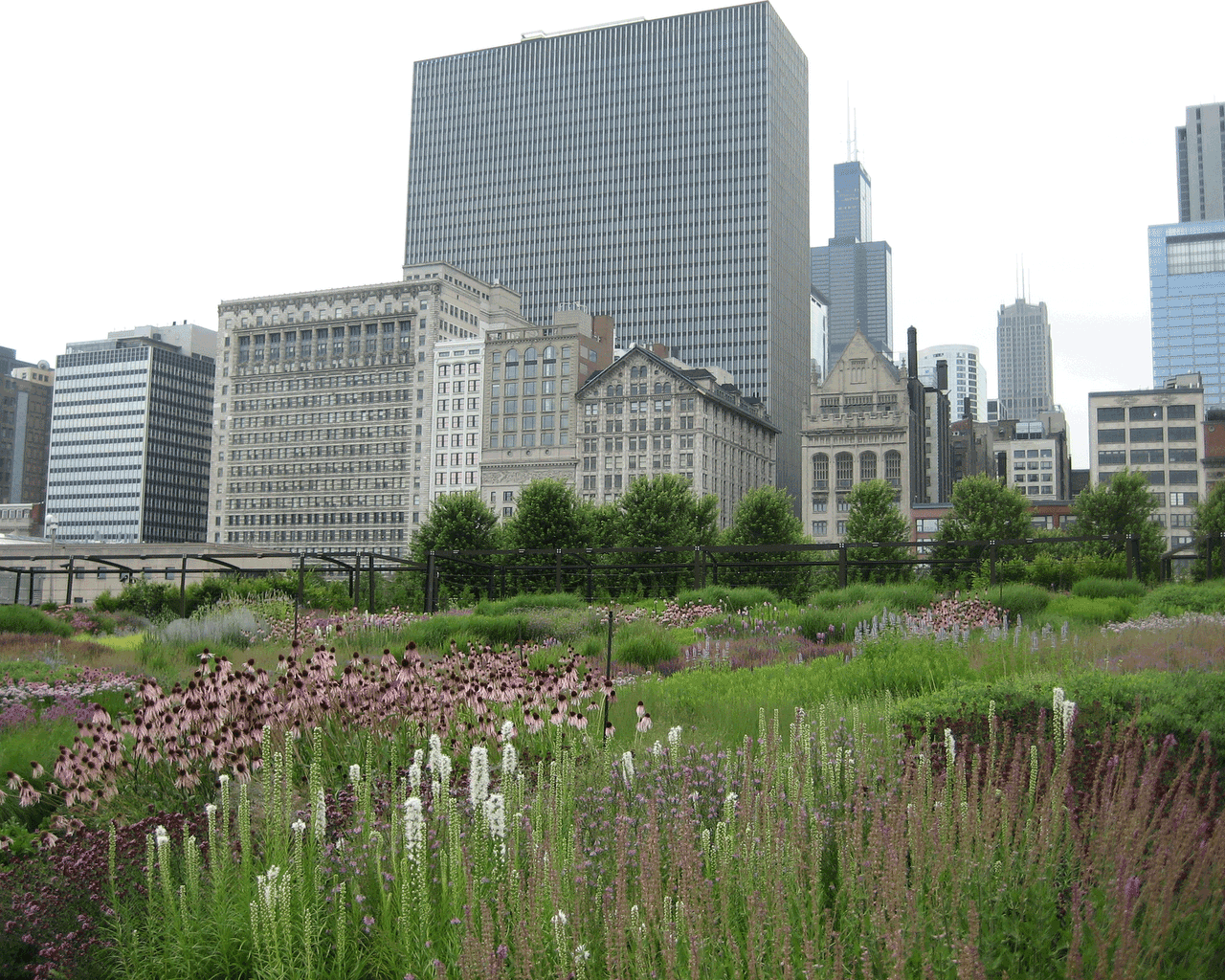 Lurie Garden in Millennium Park with Michigan Avenue and the Sears tower in the background. Taken on a typical Chicago overcast day in the month of July, 2006. Minimal touch-ups done to remove unwanted elements. Author: Dan Hiris